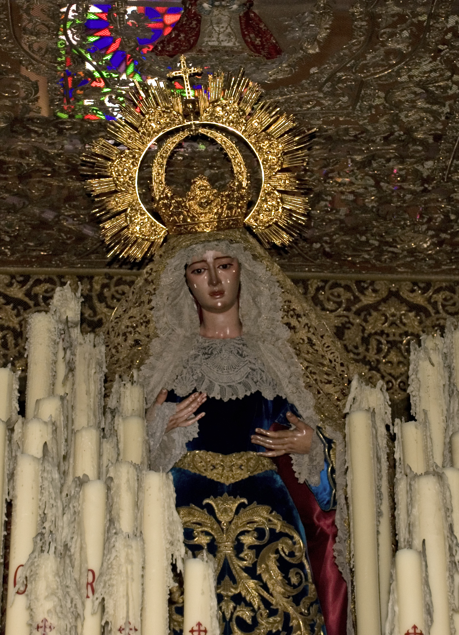 Holy Week in Seville